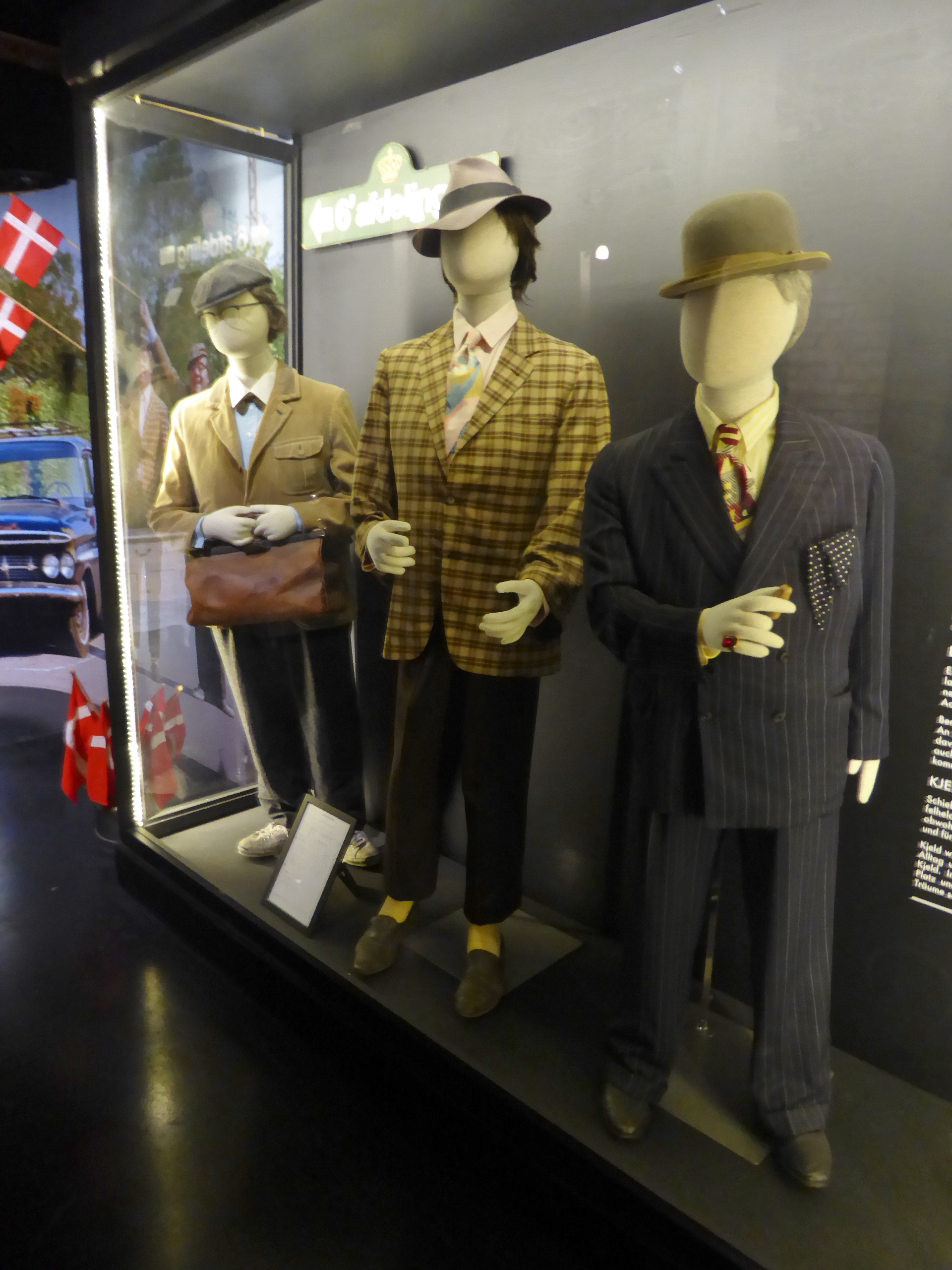 The titular Olsen-banden (the Olsen gang) of the Danish Olsen-banden film series in a special exhibition at Nordisk Film in Copenhagen. From left to right: Kjeld Jensen played by Poul Bundgaard, Benny Frandsen played by Morten Grunwald and Egon Olsen played på Ove Sprogøe.